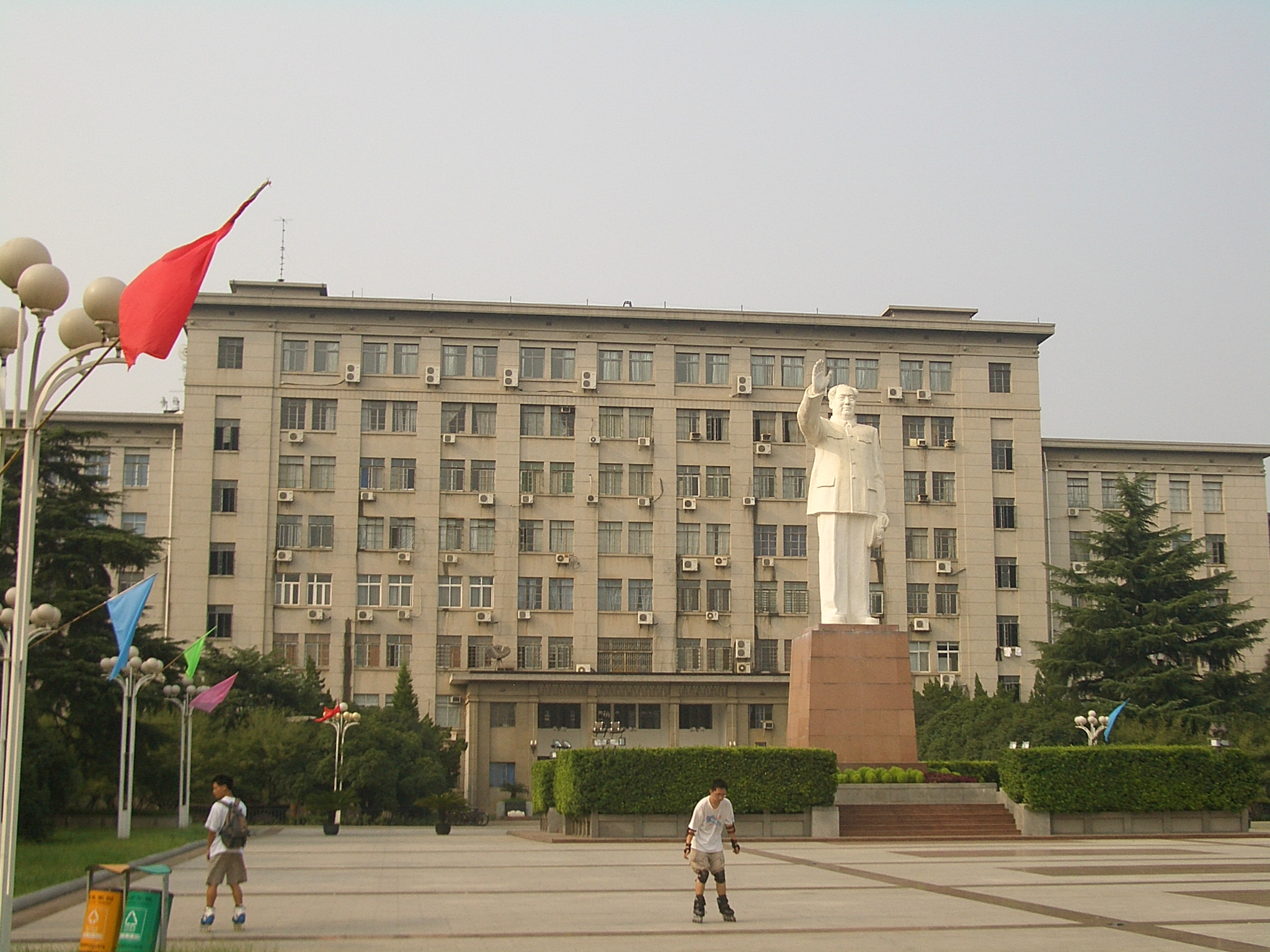 The main building of the Huazhong University of Science and Technology, with the statue of Mao Zedong in front if it, in Wuhan